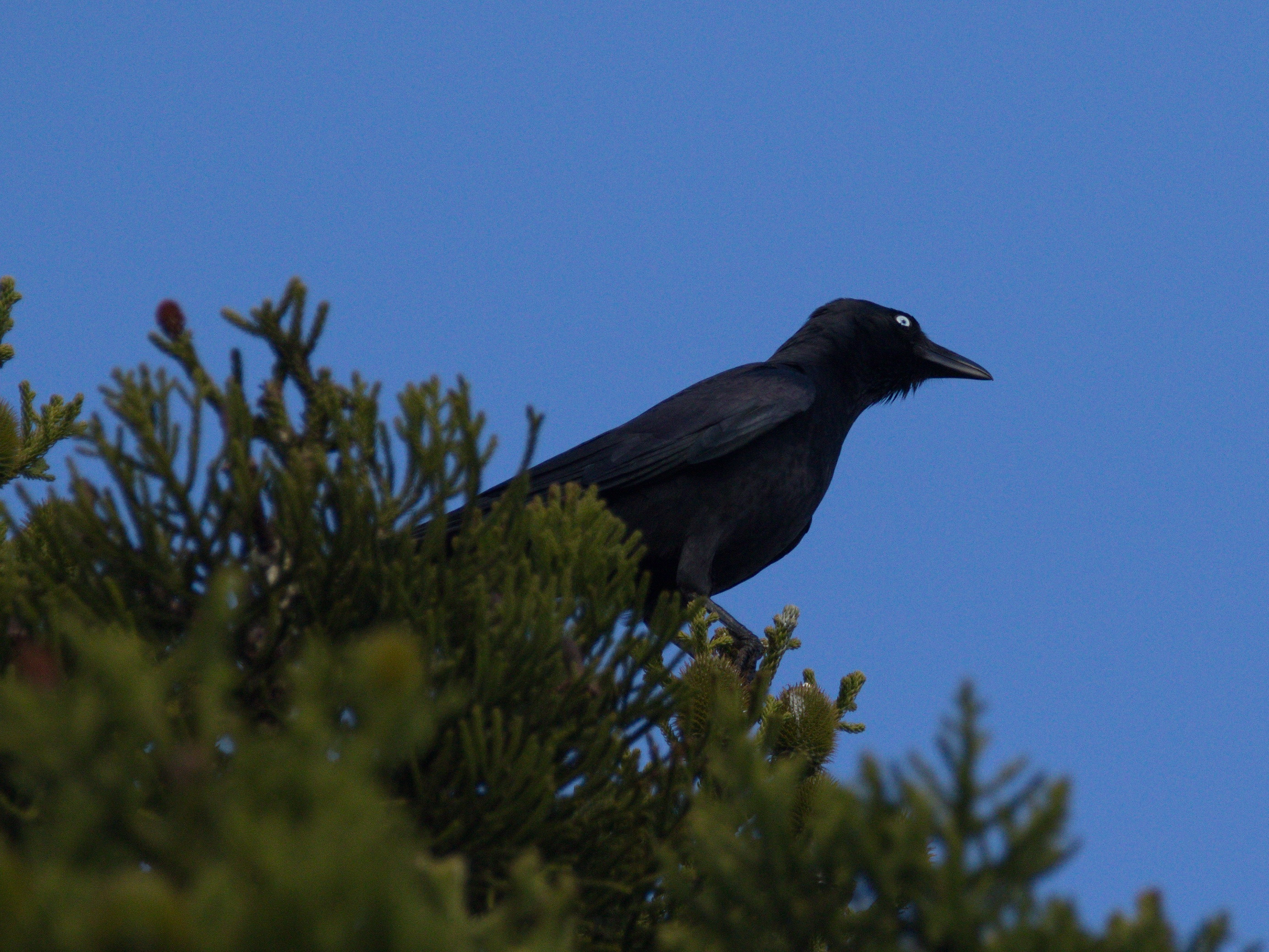 Corvus orru Bonaparte, 1850, Torresian Crow, Lamington National Park, Queensland, Australia, 26 May 2017